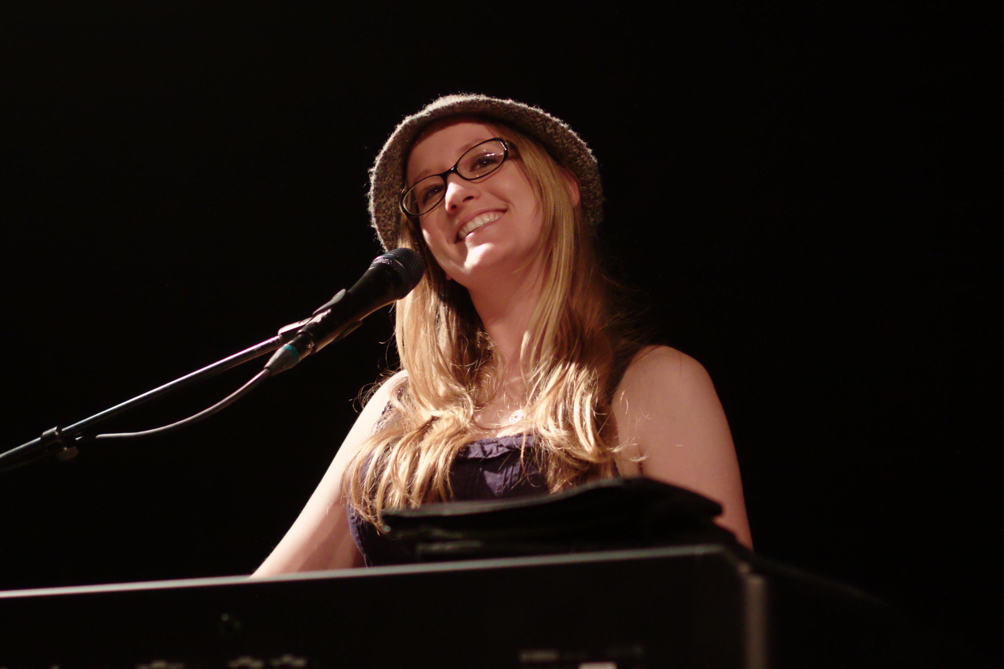 Ingrid Michaelson.